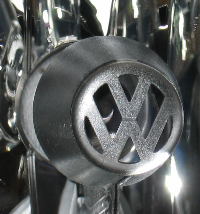 Blinding protection inside the headlight of a Volkswagen Golf Make V from 2004